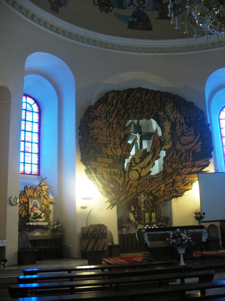 Catholic church of St. Michael (Smarhon)